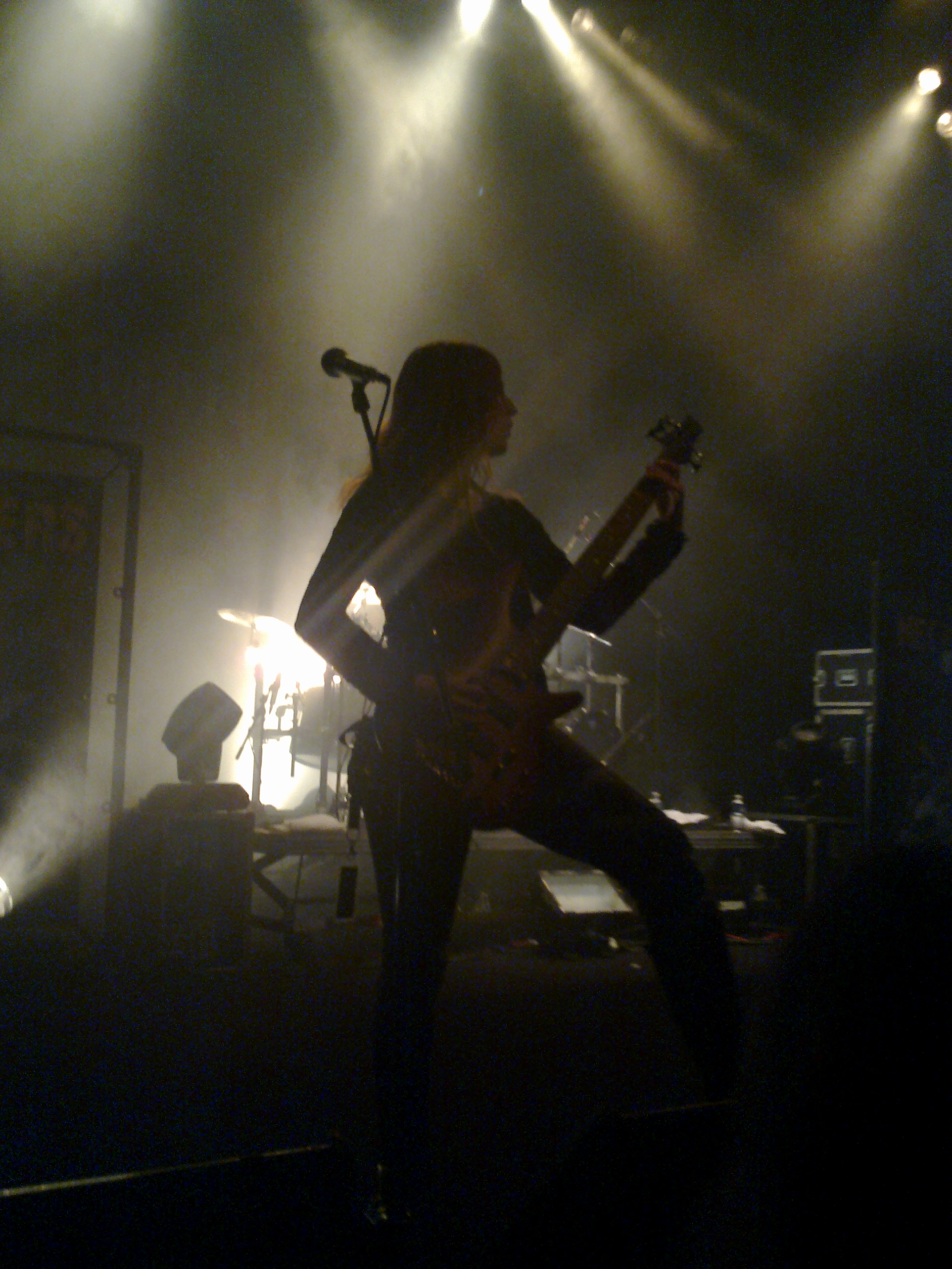 Picture of Sandra Völkl, the bassist of Equilibrium, during the band's concert in "La Laiterie", Strasbourg, the 24/01/2011.